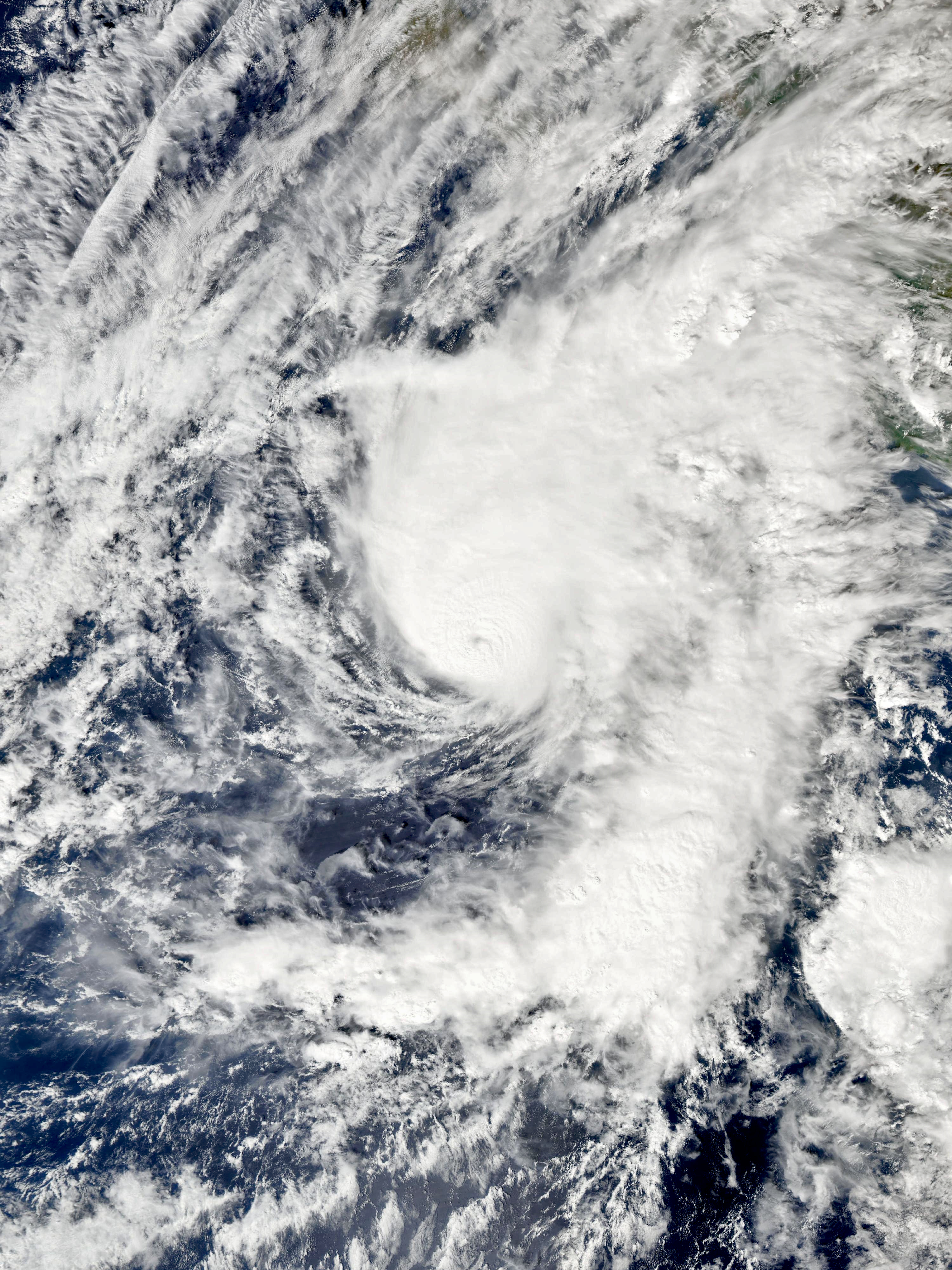 Hurricane Vance (21E) off Mexico